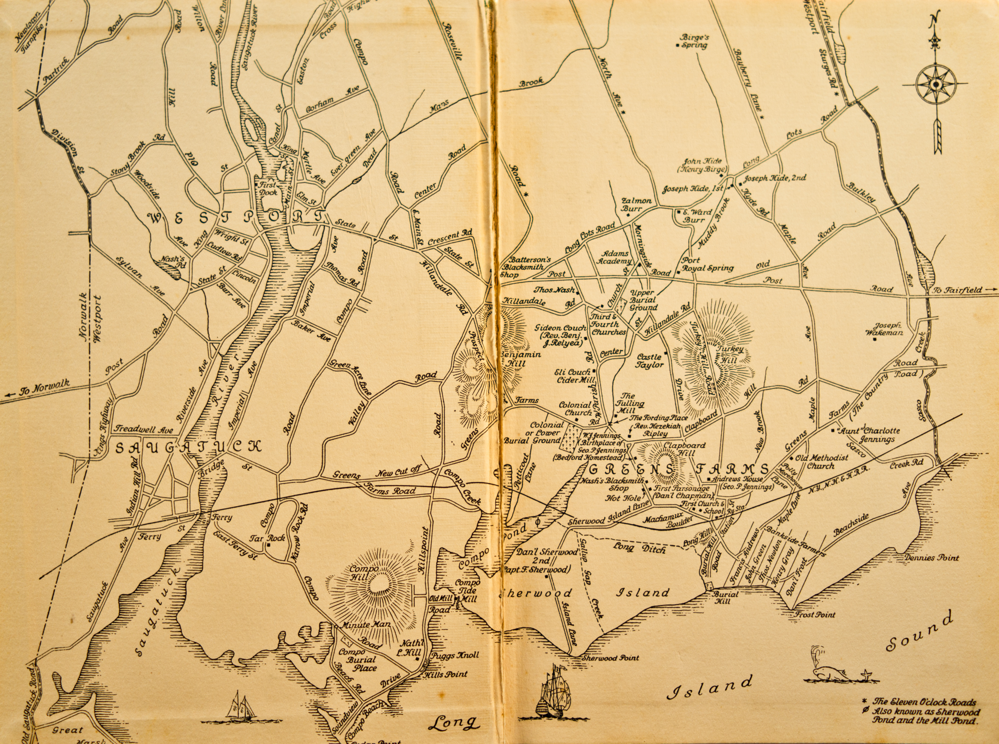 Old Map of Westport, CT